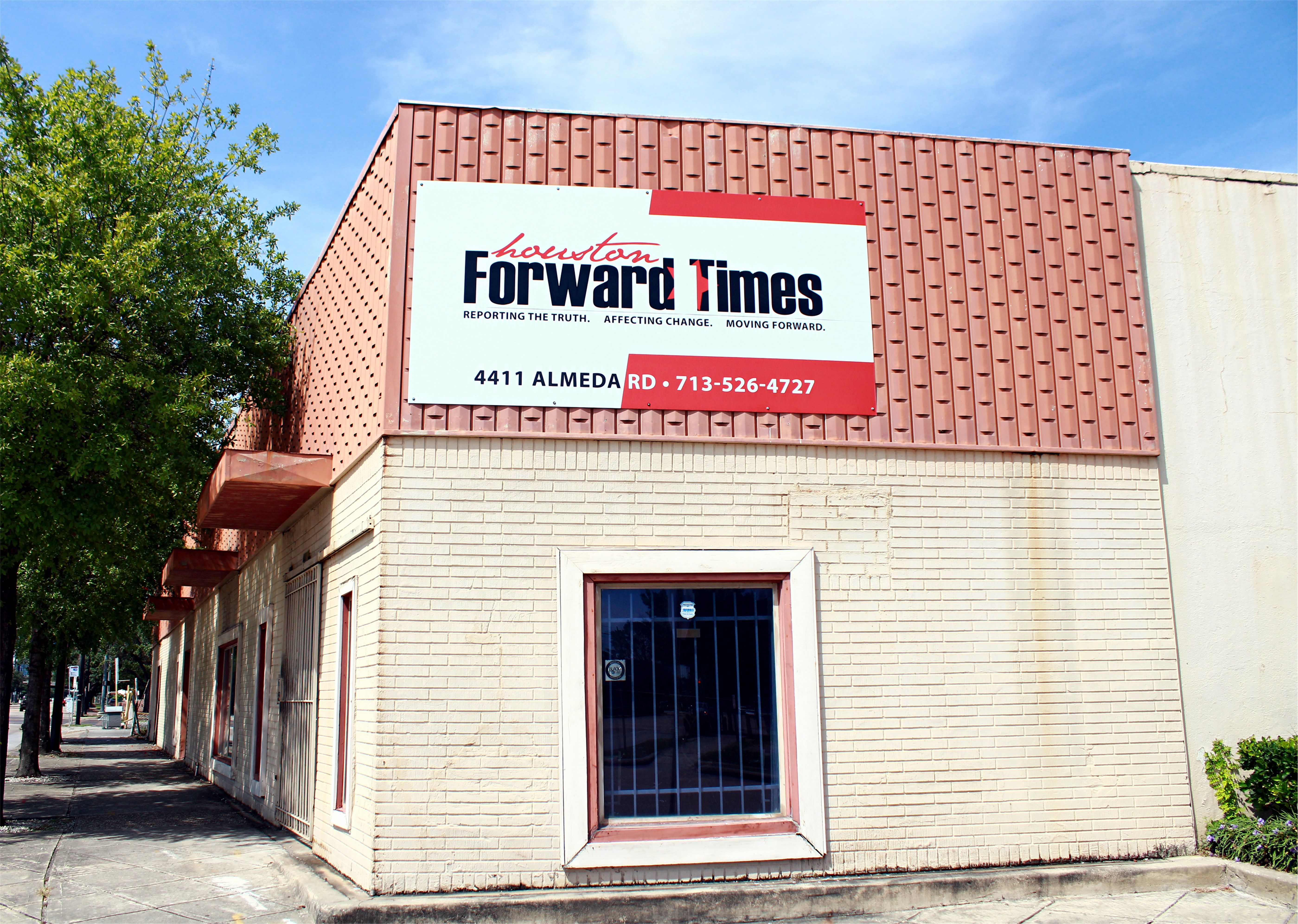 Houston Forward Times Forward Times Headquarters located in Houston, TX Third Ward.